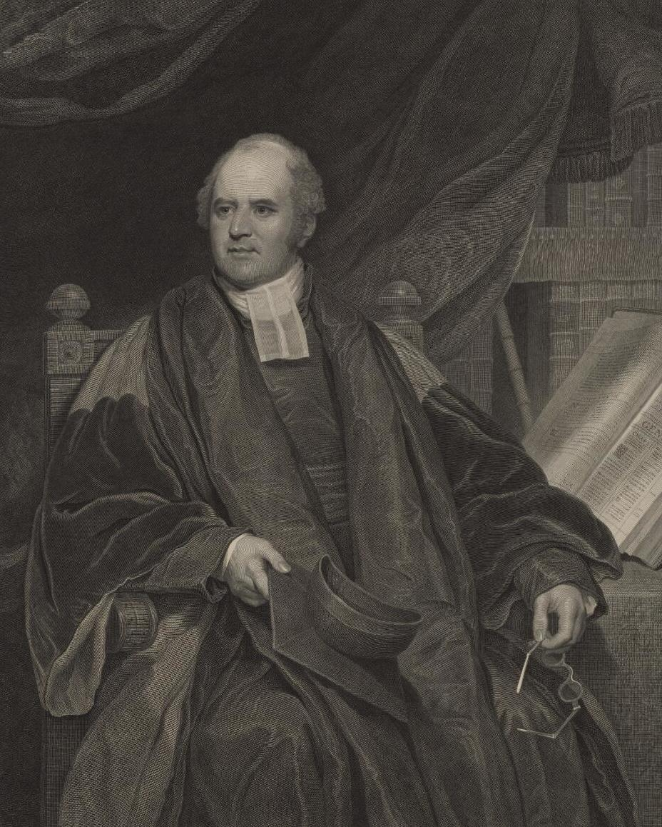 A portrait from the Welsh Portrait Collection at the National Library of Wales. Depicted person: Frodsham Hodson – English churchman and academic